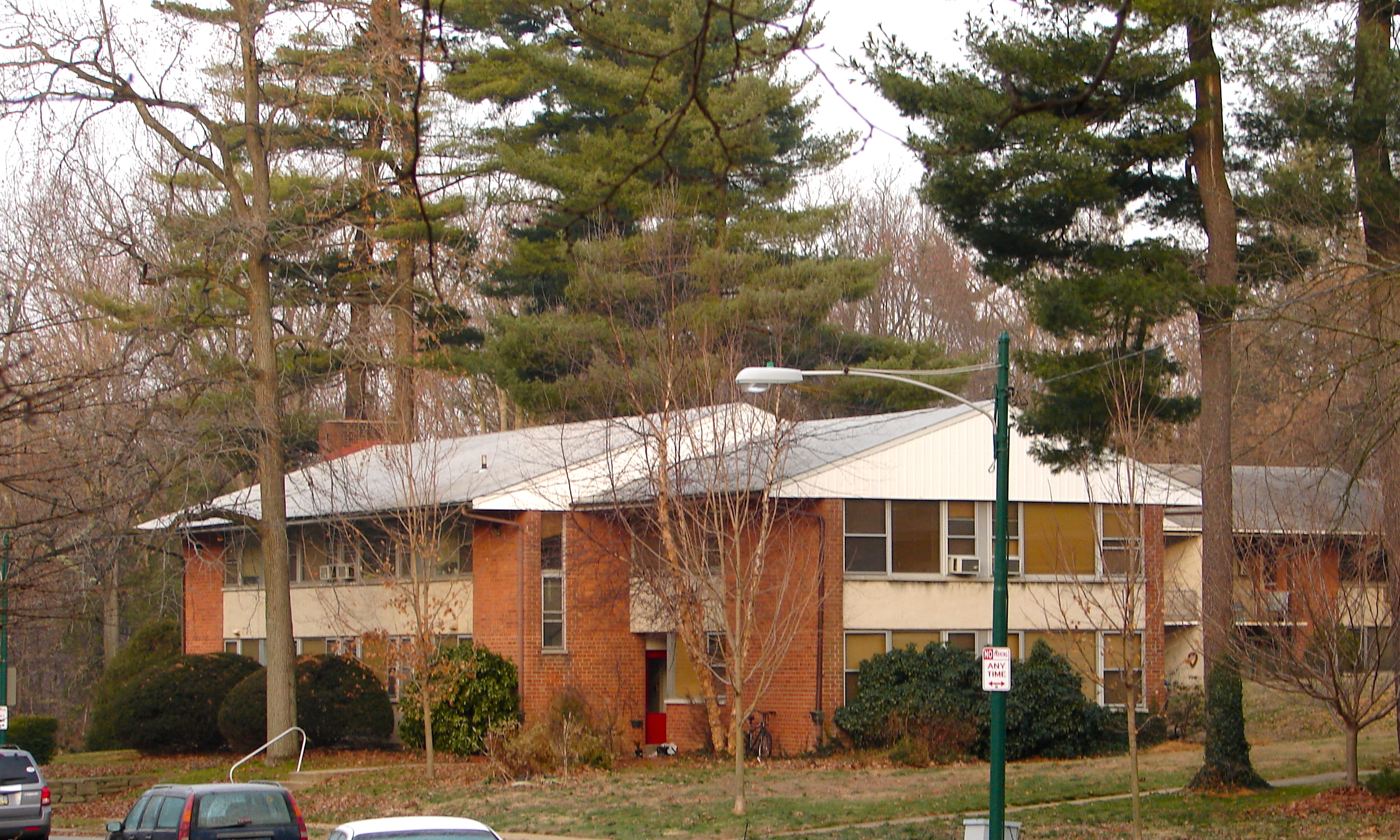 Cherokee Village Apartments built in the 1950s in Chestnut Hill, Philadelphia, Pennsylvania. The entire neighborhood is in the Chestnut Hill Historic District on the NRHP. Designed by architect Oskar Stonorov (1905 - 1970) who came to Philly from Germany in 1929. He is known for the Carl Mackley Houses (1933-34) on the NRHP, with Alfred Kastner and Pennypack Woods (1941-43), designed with Louis Kahn and George Howe, as well as the country house for his own use in Chester County. Entire neighborhood is in the Chestnut Hill Historic District on the NRHP.